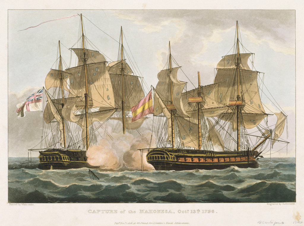 Capture of the Mahonesa Octr. 13th 1796